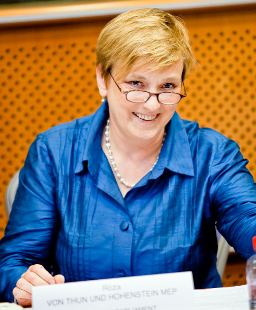 Róża Thun during European Forum for Manufacturing (Internal Market & Manufacturing)